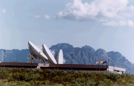 Second TDRSS Ground Terminal. The White Sands Complex (WSC) is located near Las Cruces, New Mexico and includes two functionally identical satellite ground terminals. These terminals, known as the White Sands Ground Terminal (WSGT) and the Second TDRSS Ground Terminal (STGT), respectively. The ground terminals provide the hardware and software necessary to ensure uninterrupted communications between the customer spacecraft and the NISN interface to the customer control center. Project Management and Systems Engineering for the WSC are provided by the Space Network Project Office at the Goddard Space Flight Center.